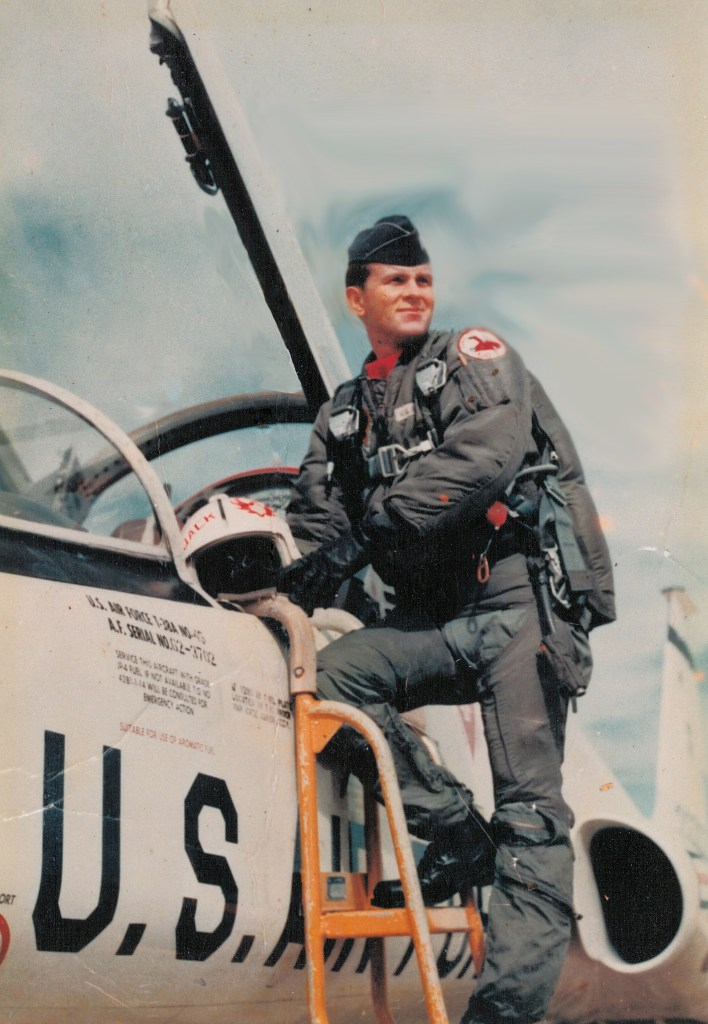 Jack K. Clapper in Air Force Uniform posing on ladder next to fighter jet - 1967